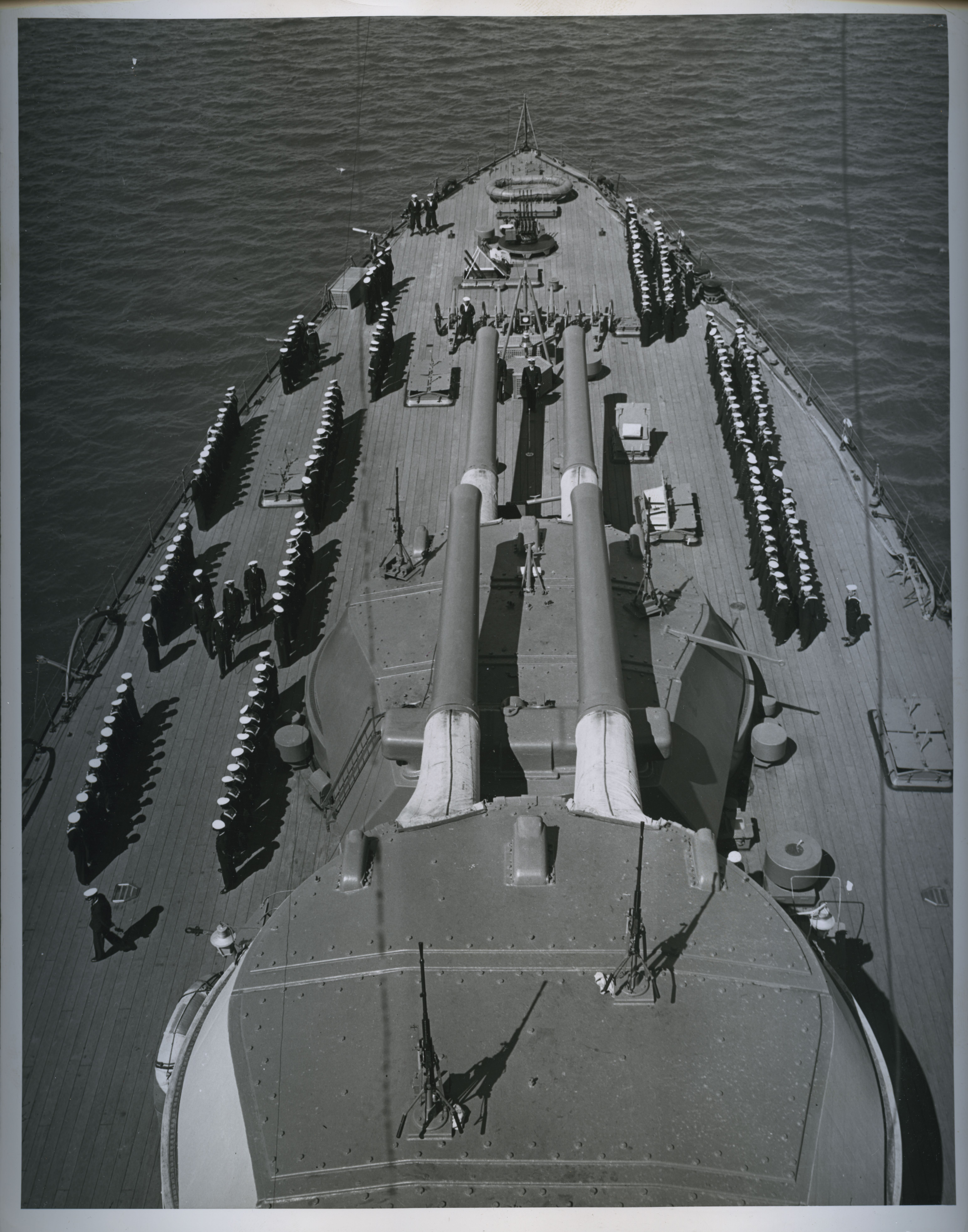 Review aboard the Chilean battleship Latorre, sailors on the bow of the ship.